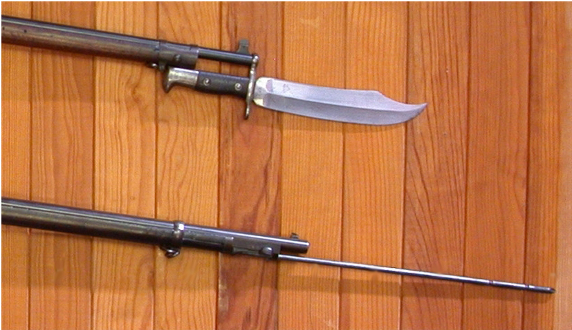 US Bayonets